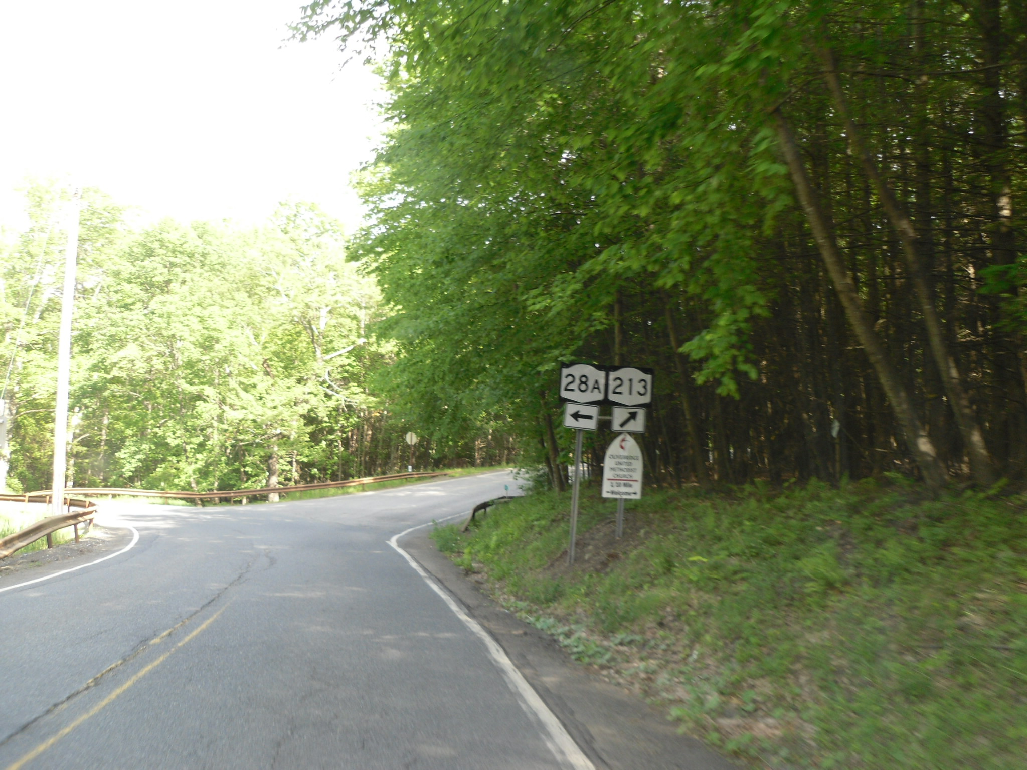 Former intersection of New York State Route 28A (NY 28A) and NY 213 taken May 2010. Intersection was reconstructed in 2011-2012